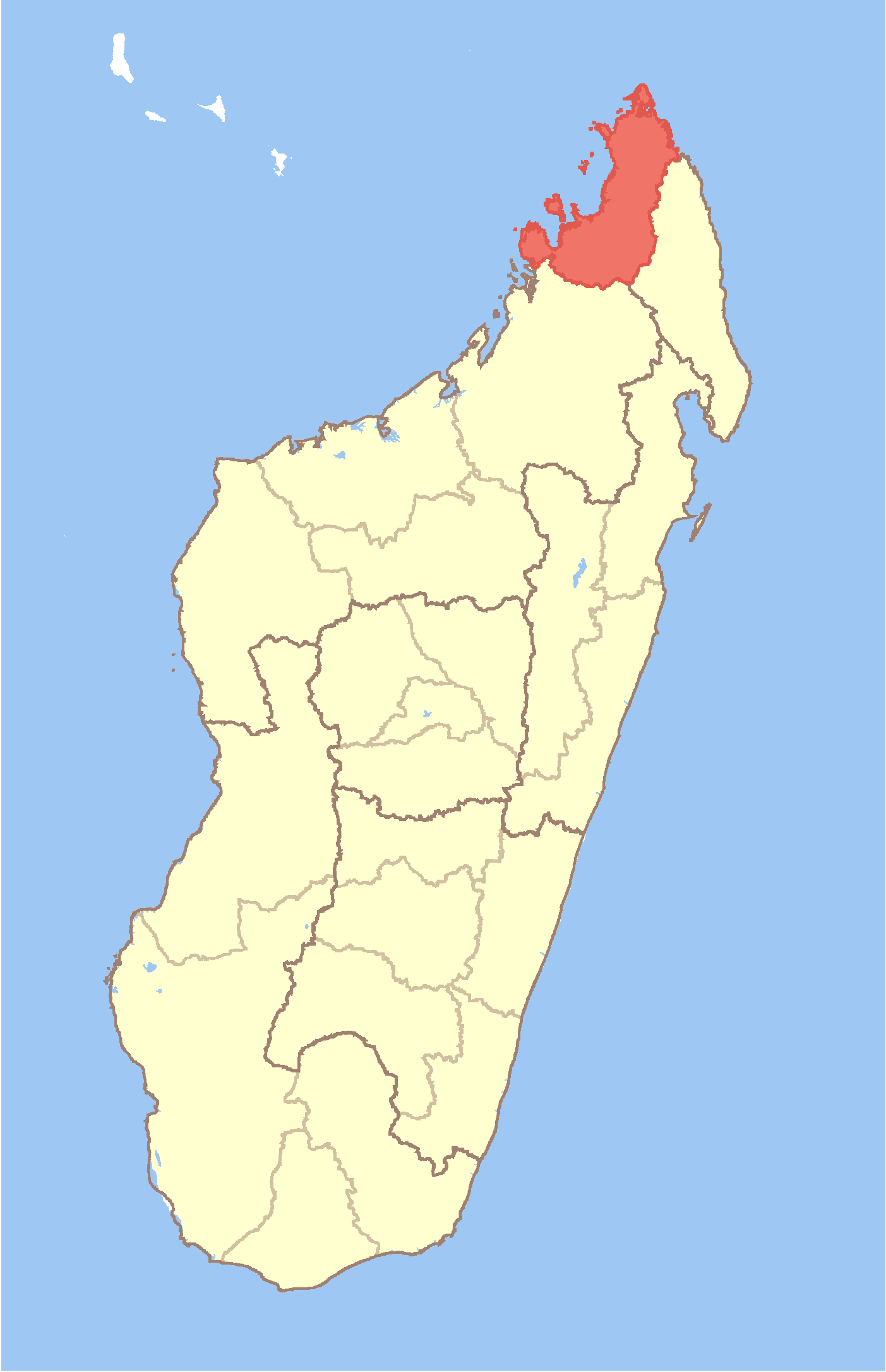 Map of Madagascar with Diana Region highlighted